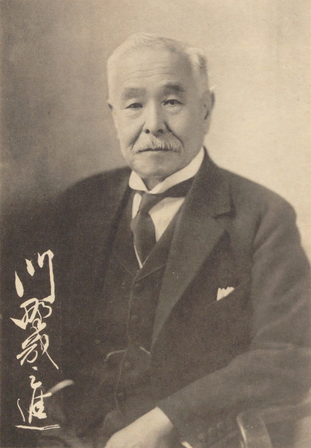 Portrait of Kadono Ikunoshin (門野幾之進, 1856 – 1938)